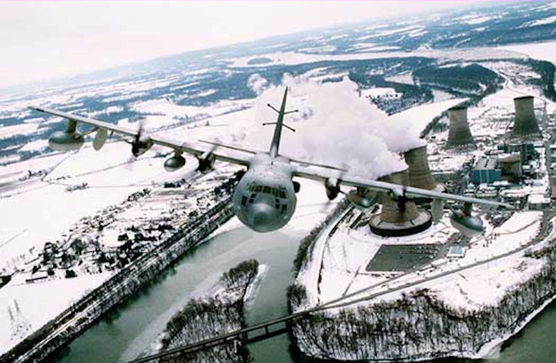 Flying over the Pennsylvania countryside in a training mission, the EC-130E/J Commando Solo is a specially-modified four-engine Hercules transport that conducts information operations, psychological operations and broadcasts information in various frequencies. The 193rd Special Operations Wing, Harrisburg International Airport, Pa., has total responsibility for the Commando Solo missions. (U.S. Air Force photo